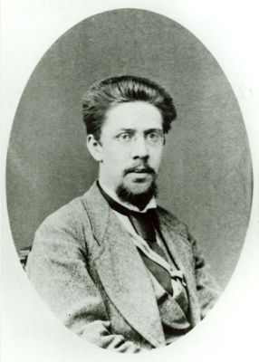 Wilhelm Christian Hermann StiedaEesti: Stieda, Wilhelm Christian Hermann (1852-1933), majandusteadlane, TÜ kasvandik, TÜ geograafia, etnograafia ja statistika professor